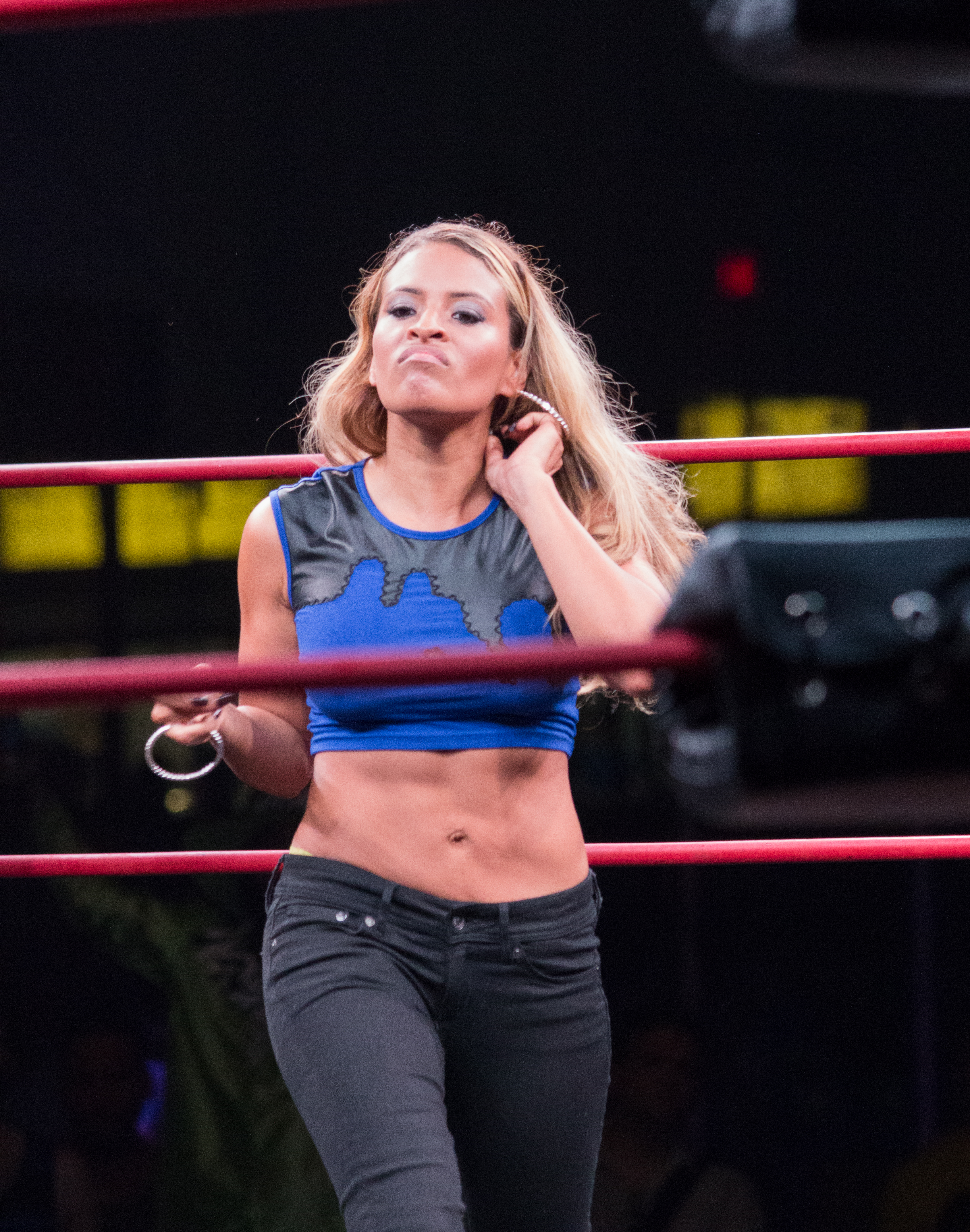 Thea Trinidad in the ring at the House of Hardcore 8 show at Ted Reeve Arena in Toronto, ON. She is in the process of taking of her earrings as she was about to get physical with the wrestler Rhino.